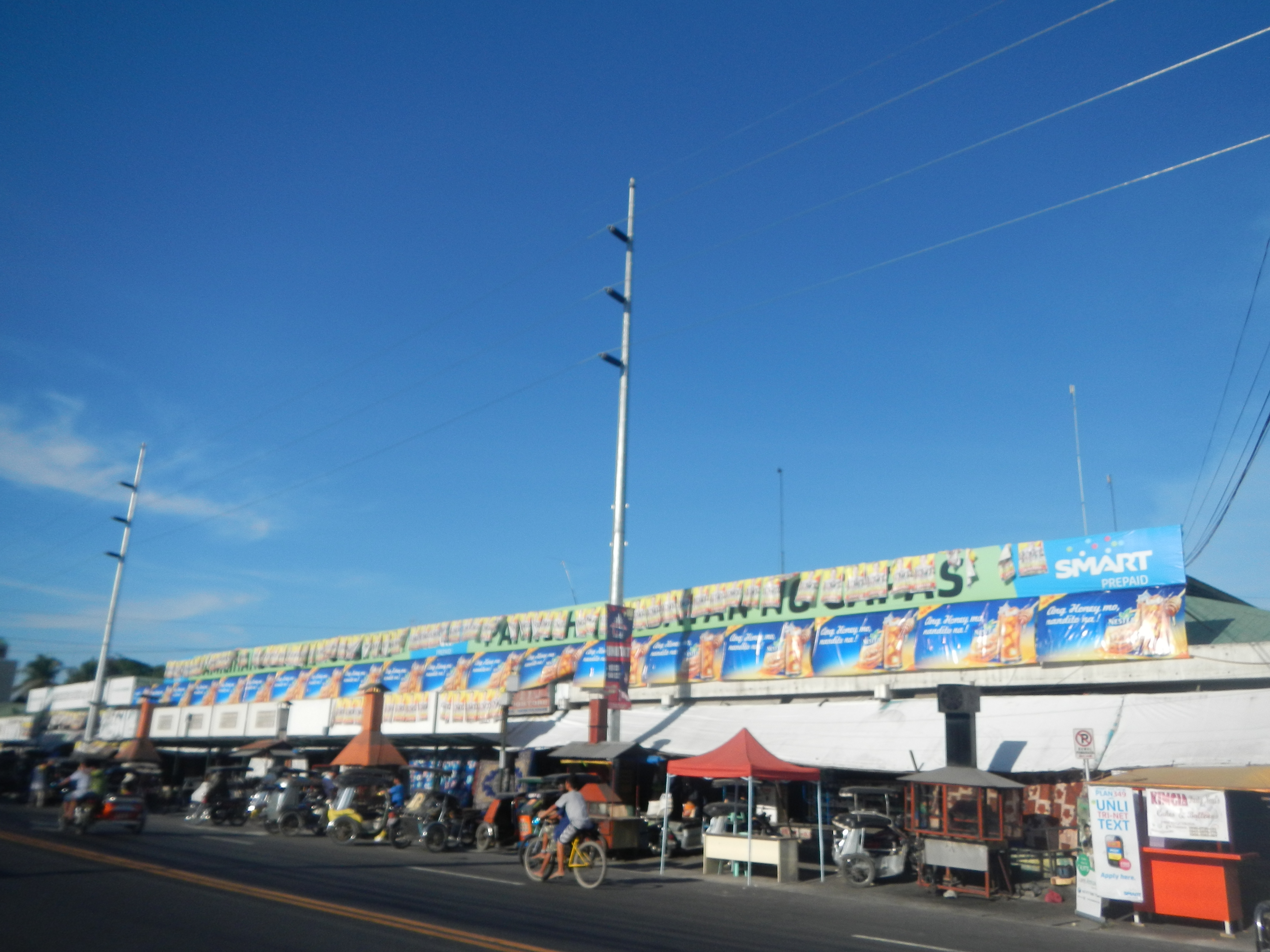 Capas, Tarlac[1], Capas is a first class municipality in the province of Tarlac, Philippines. According to the 2010 census, it has a population of 125,852 people. Capas is a part of the Third Municipal district of Tarlac with Antonio "TJ" Capitulo Rodriguez Jr. as its incumbent mayor and Jeci A. Lapus as its congressman.[2]geographical location: Tarlac, Region 3, Philippines, Asia Geographical coordinates: 15° 19' 39" North, 120° 35' 27" East This place is situated in Tarlac, Region 3, Philippines, its geographical coordinates are 15° 19' 39" North, 120° 35' 27" East and its original name (with diacritics) is Capas. See Capas photos and images from satellite below, explore the aerial photographs of Capas in Philippines. Capas hotels map is available on the target page linked above. The multi-million Capas Town Hall is being constructed, hence, the unfinished Capas landmark, its own pride, of course - interesting points are the public market, the hospital, the RCS Supermarket The multi-million Pesos Municipal Town hall is being constructed, hence, it is photographed in its unfinished stage.